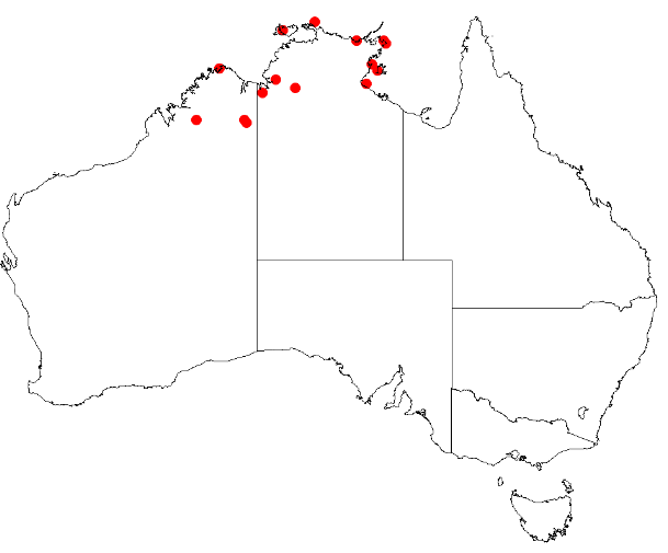 Decaisnina petiolata Occurrence data from AVH downloaded 24 February 2019 using